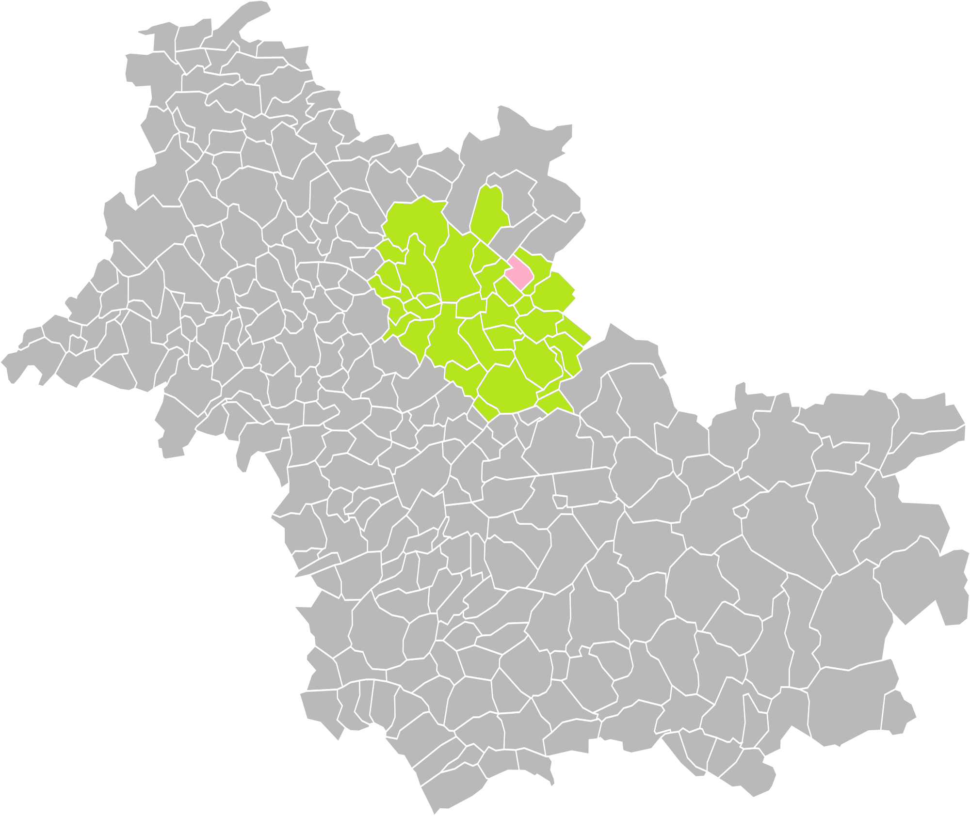 Location of the commune of Briou in the Communauté de communes de la Beauce-Val de Loire (Loir-et-Cher)